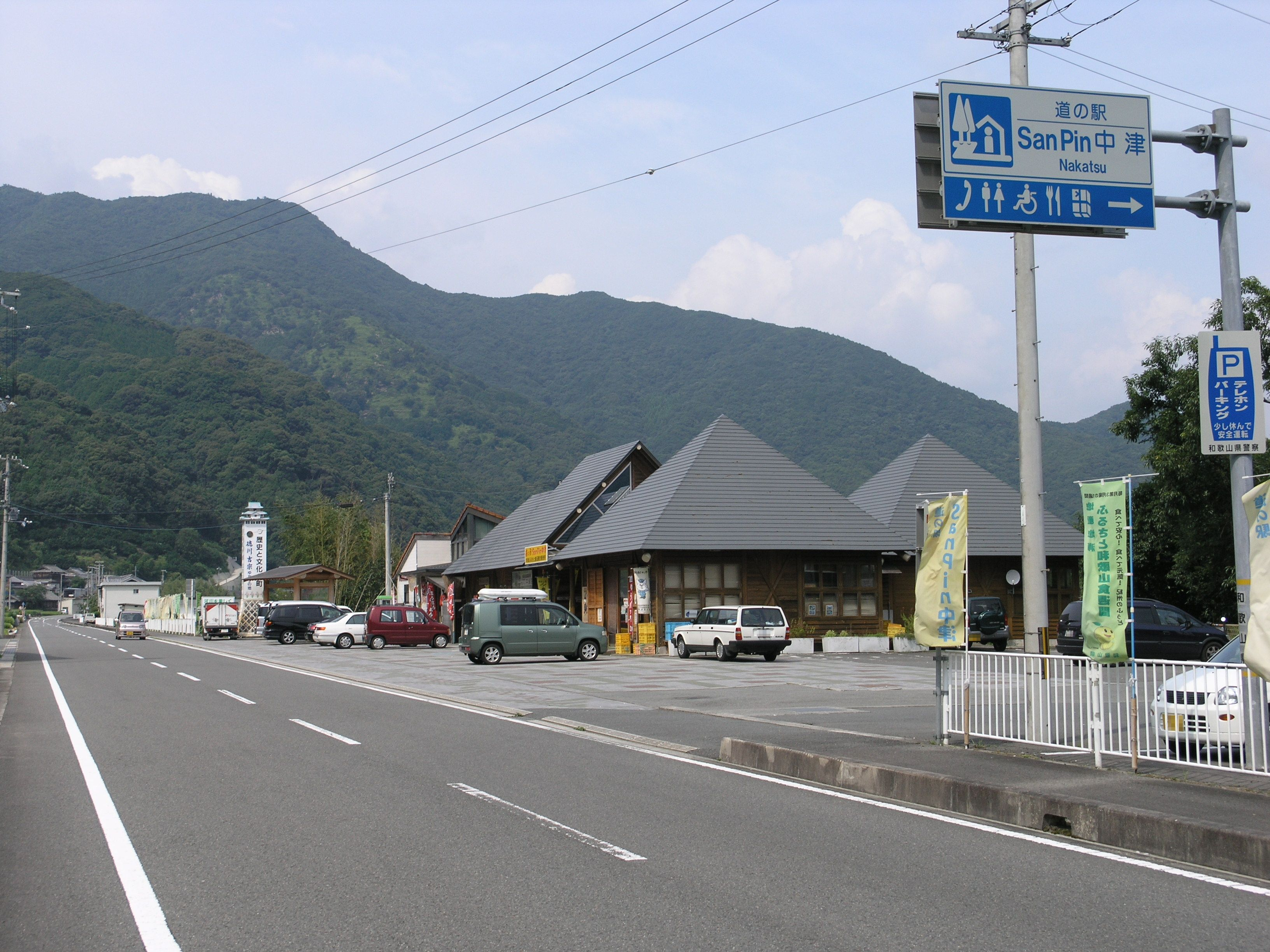 San_Pin_Nakatsu a Roadside Station, Hidakagawa, Wakayama